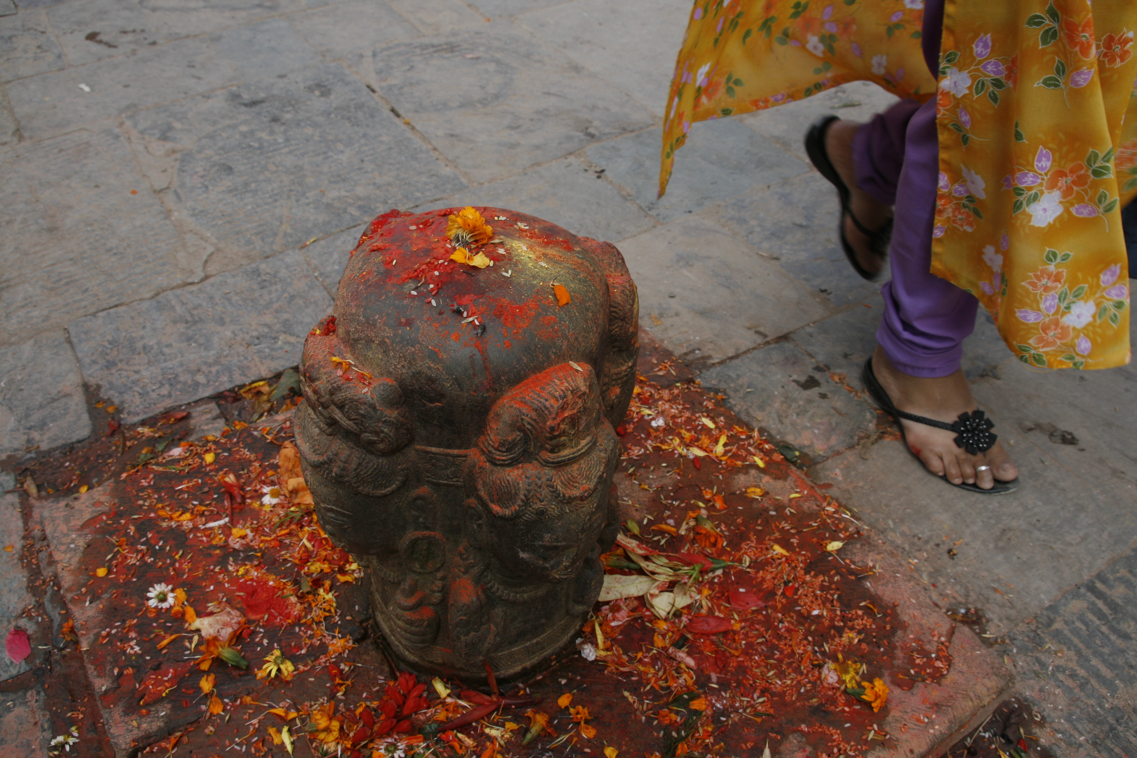 Shiva Linga in Hindu temple in Patan, Nepal